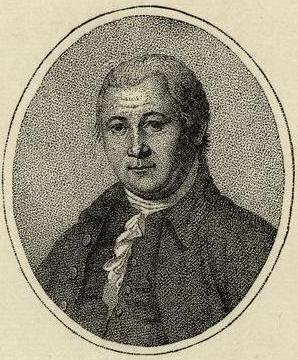 John Bayard, Delegate to Continental Congress from Pennsylvania